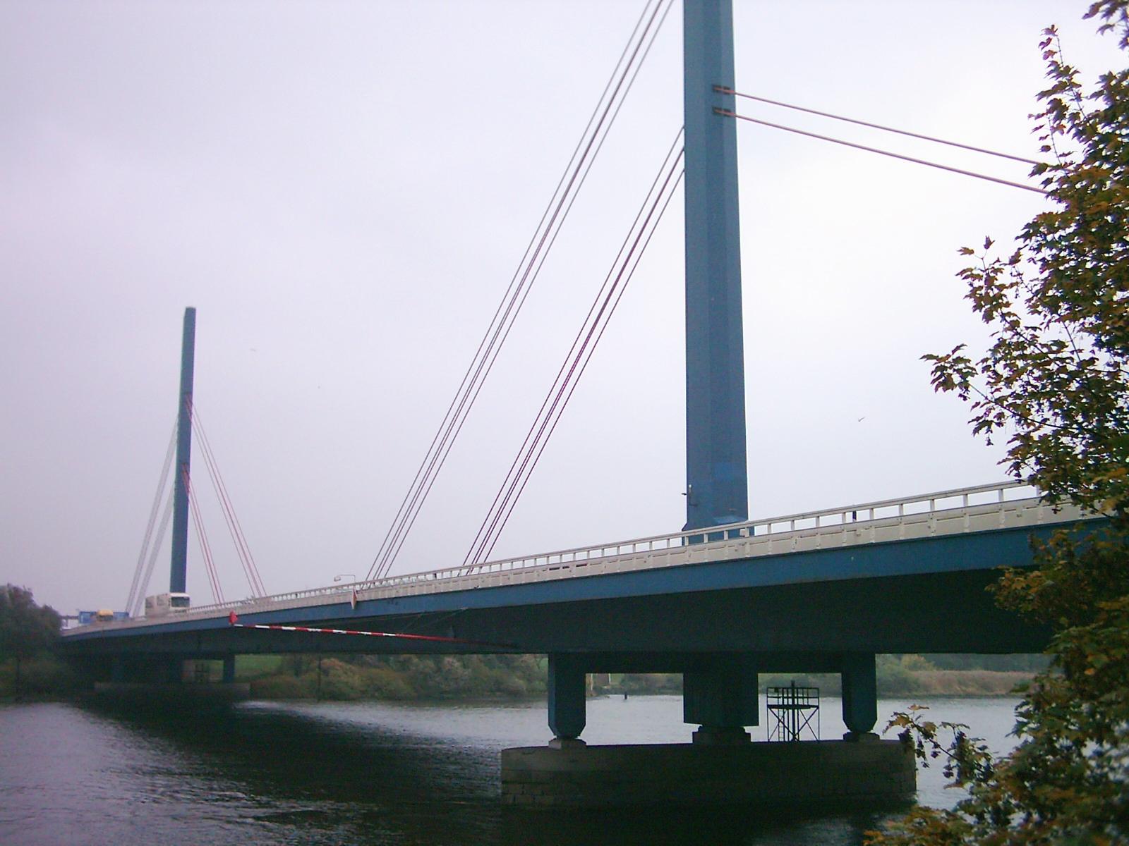 Norderelbbrücke, Hamburg, Germany.